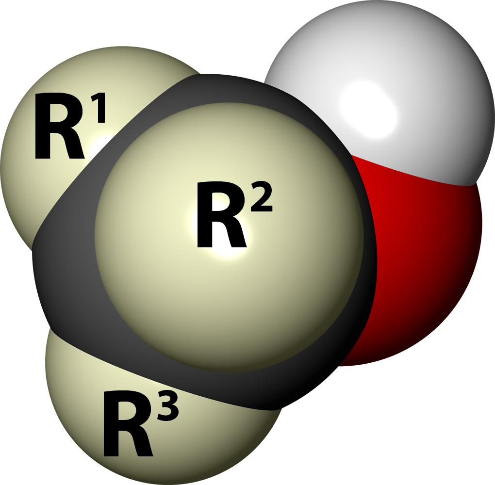 Space filling model of the alcohol molecule.